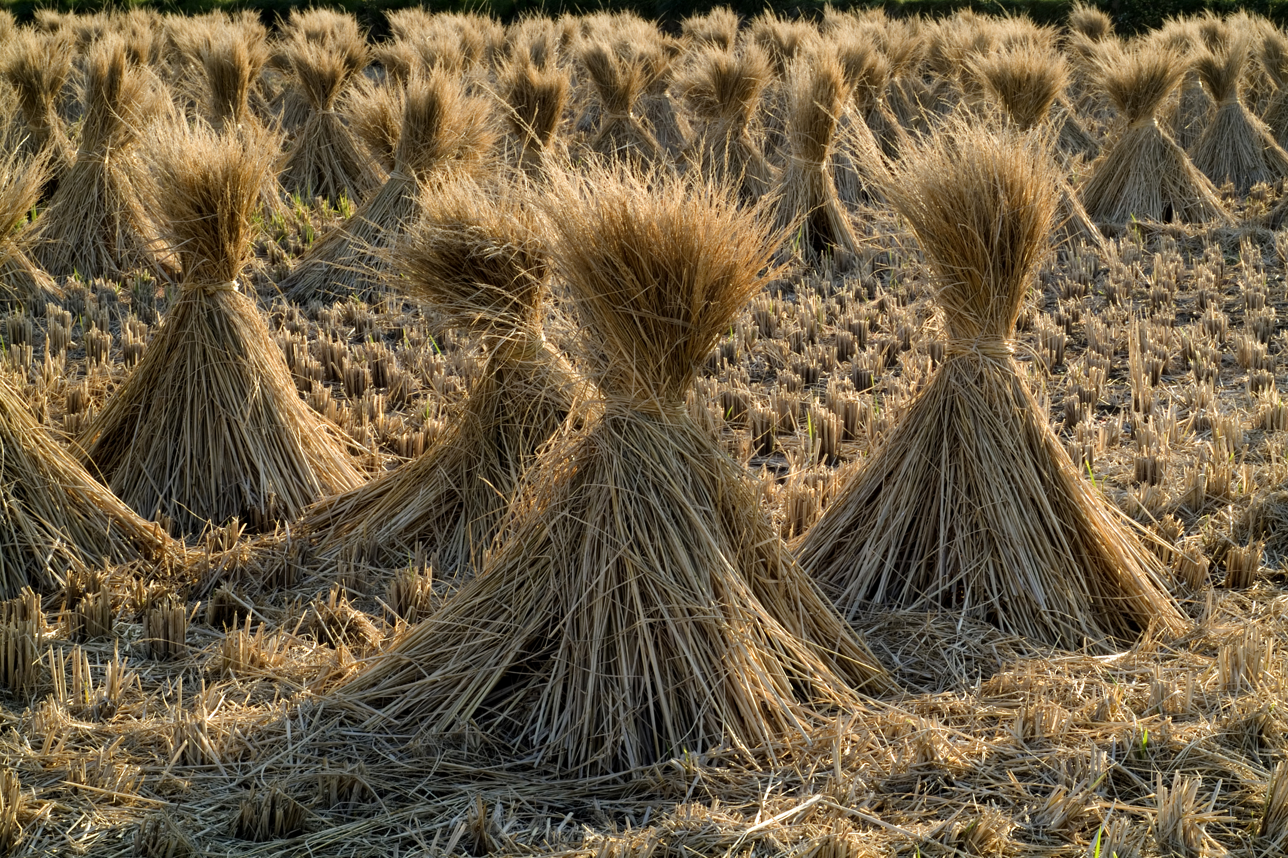 Straw of the rice. The straw of the rice plant which it is dry naturally in order to use as the product.